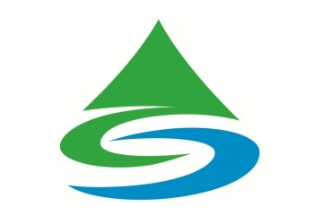 Flag of Asakura Fukuoka